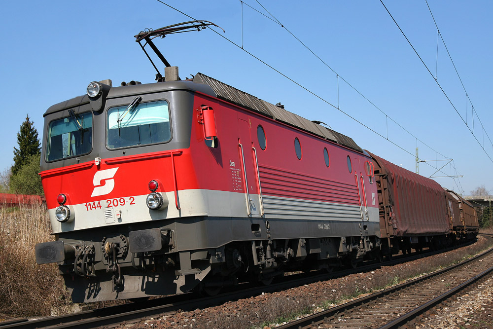 An ÖBB class 1144 pulls a freight train in Rosenheim